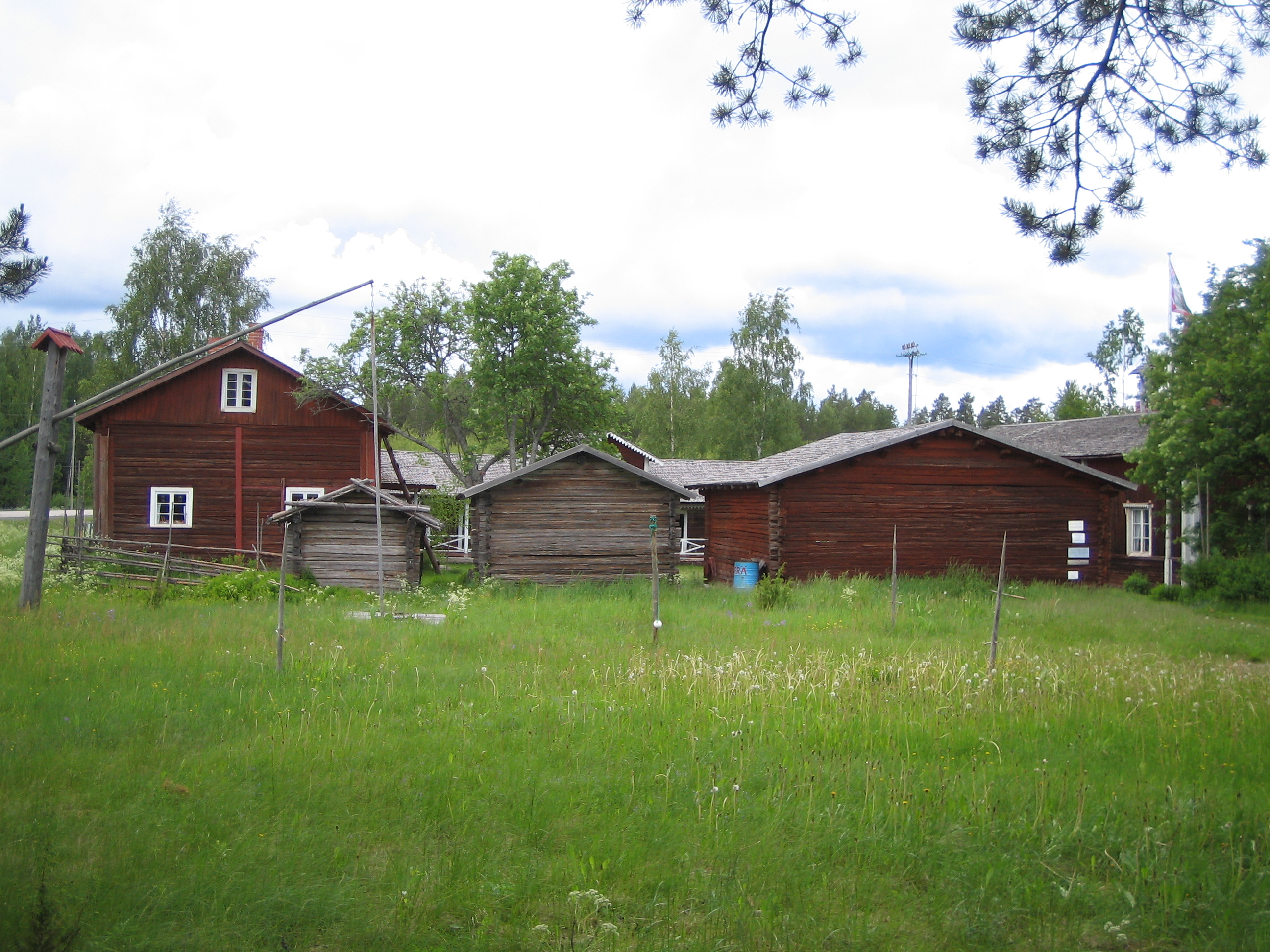 Juupajoki Kallenautio. Kallenaution kievari, a museum and cafe at Juupajoki, Juupajoki.